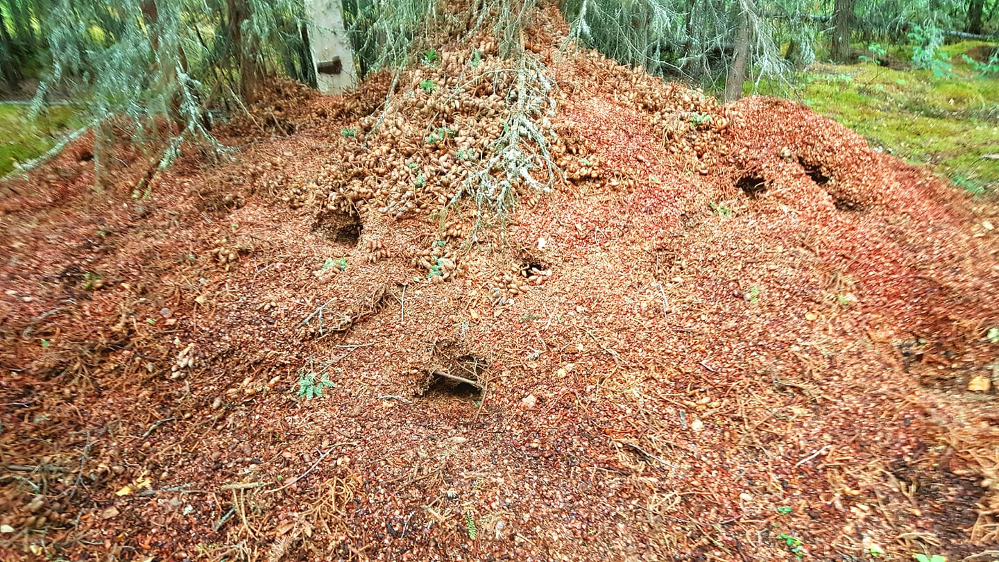 Midden (burrow) constructed by red squirrels in a spruce/birch forest, Kenai National Wildlife Refuge, Alaska